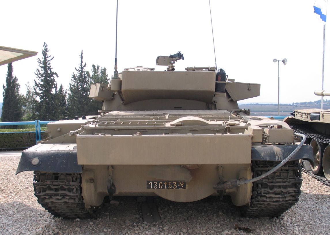 Description: Soviet T-62 MBT (Israeli designation Tiran 6) in Yad la-Shiryon Museum, Israel. 2005. Source: Photo by me, User:Bukvoed.